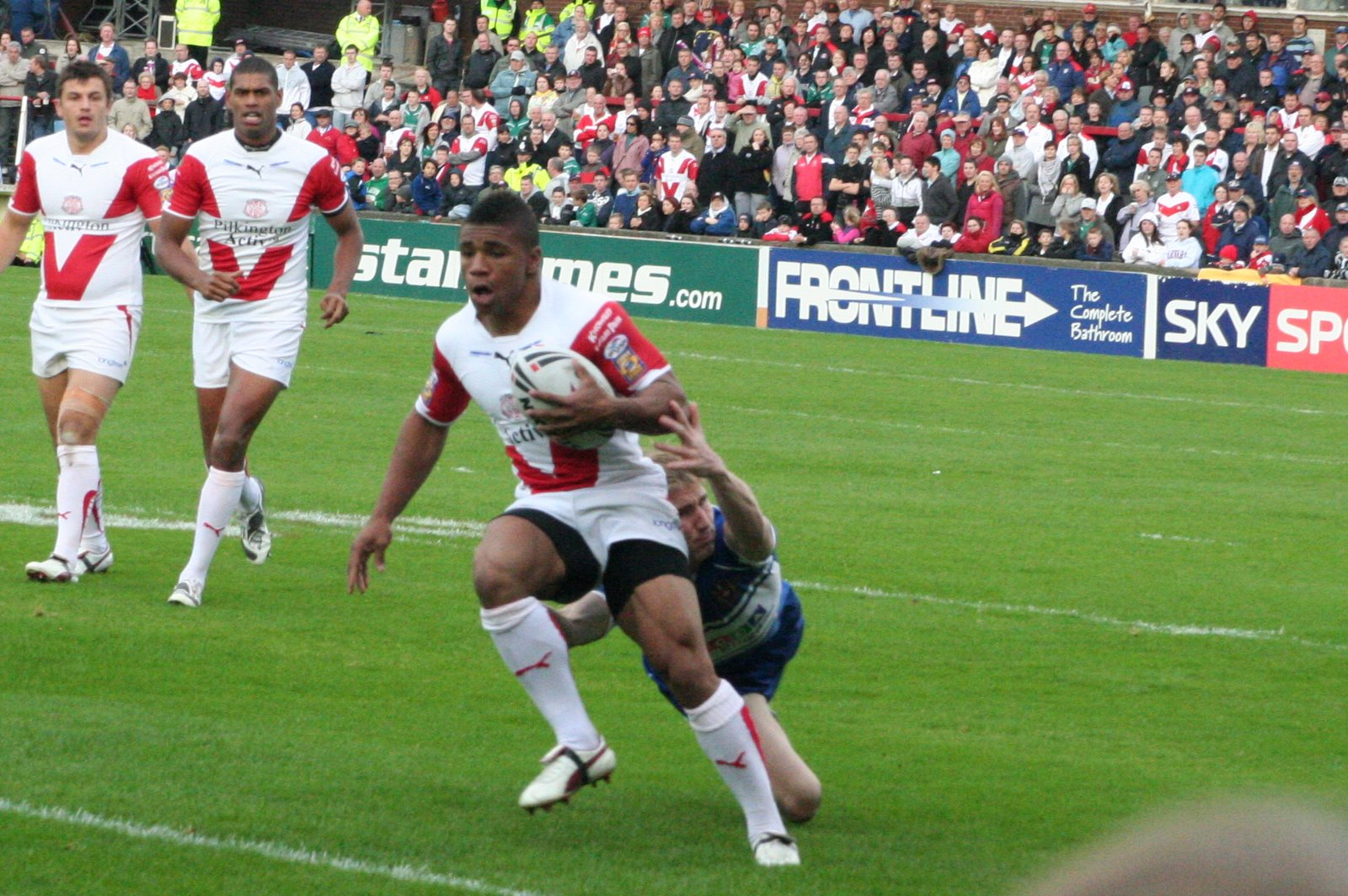 Kyle Eastmond, English rugby league player.